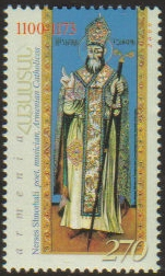 Stamp of Armenia